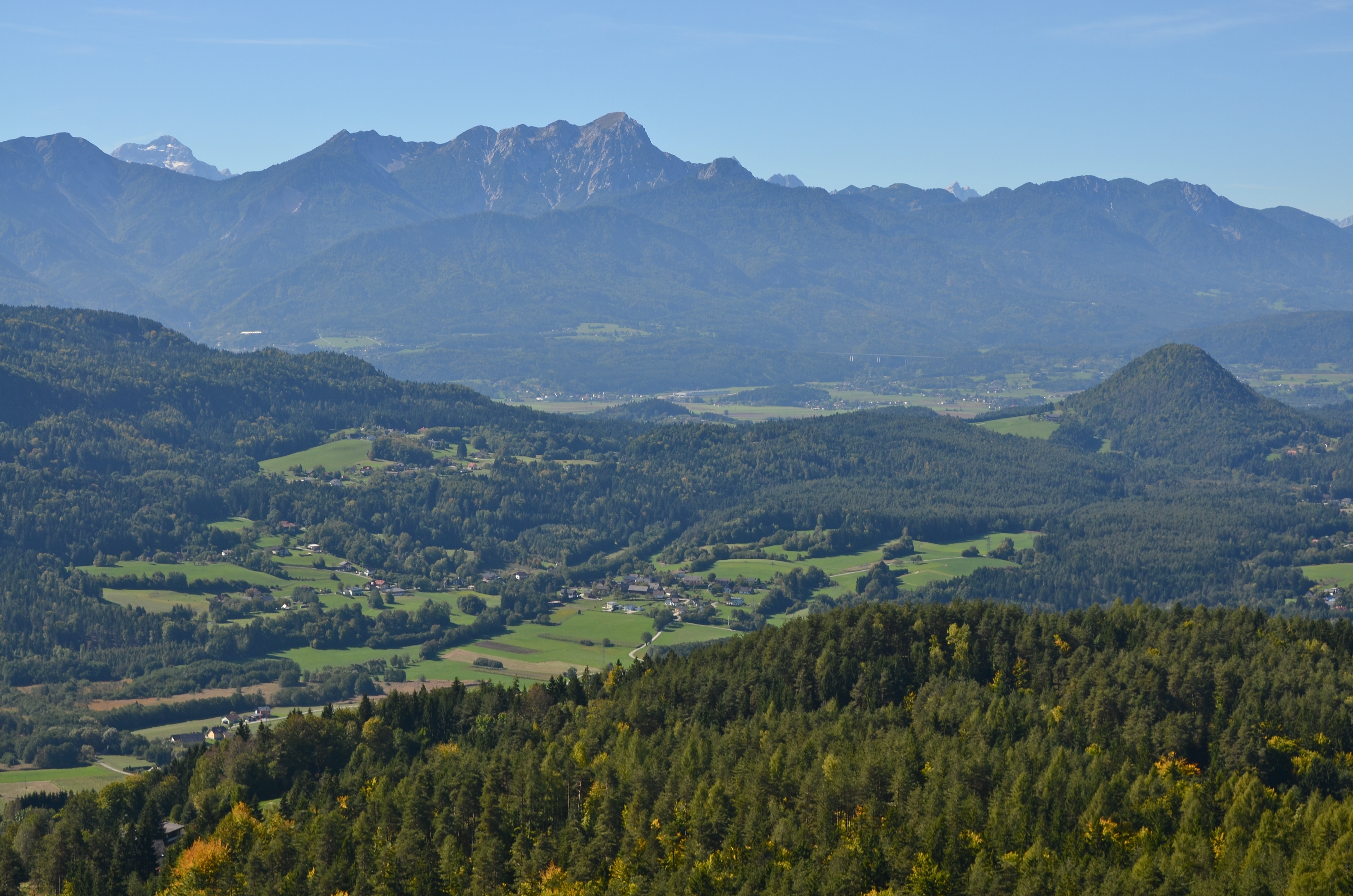 View of the Karawanken in the background, in the center the Kathrein Ballon next to Penken and Techelweg, municipality Schiefling am See, district Klagenfurt Land, Carinthia, Austria, EU